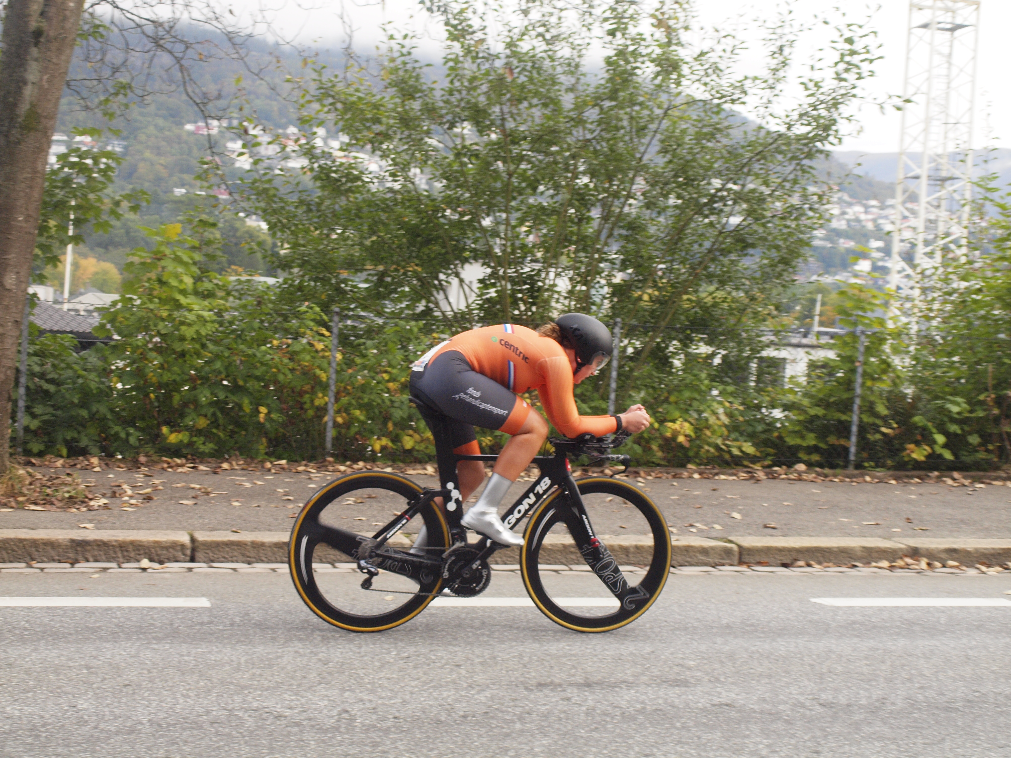 Anne De Ruiter at the 2017 UCI World Championships